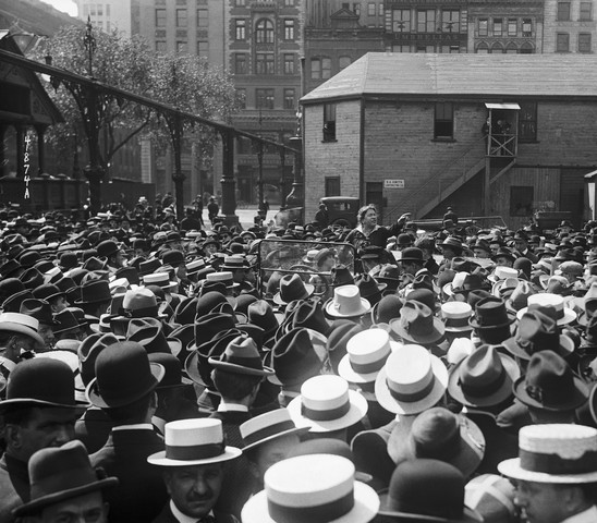 Emma Goldman addressing a crowd at Union Square, New York.